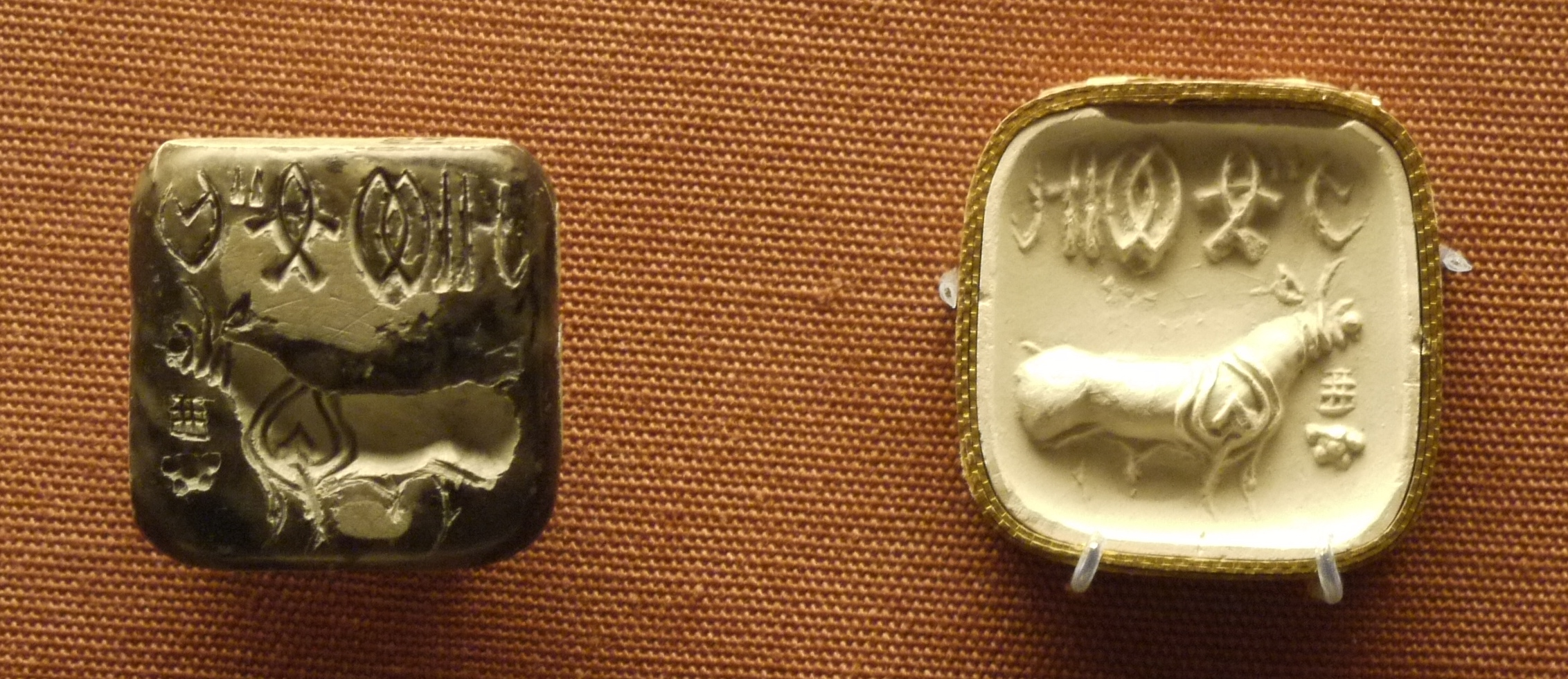 Indus stamp-seal 2500BC-2000BC. This stamp featured in the BBC/BM radio series 'A History of the World in 100 objects